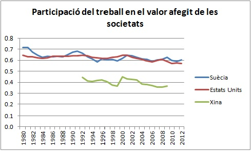 Corporate labor share for Sweden, USA and China (1980-2012). The data can be obtained from and is the dataset of: Karabarbounis and Neiman, "The global decline of the labor share", Quarterly Journal of Economics, 129(1), 61-103, February 2014.